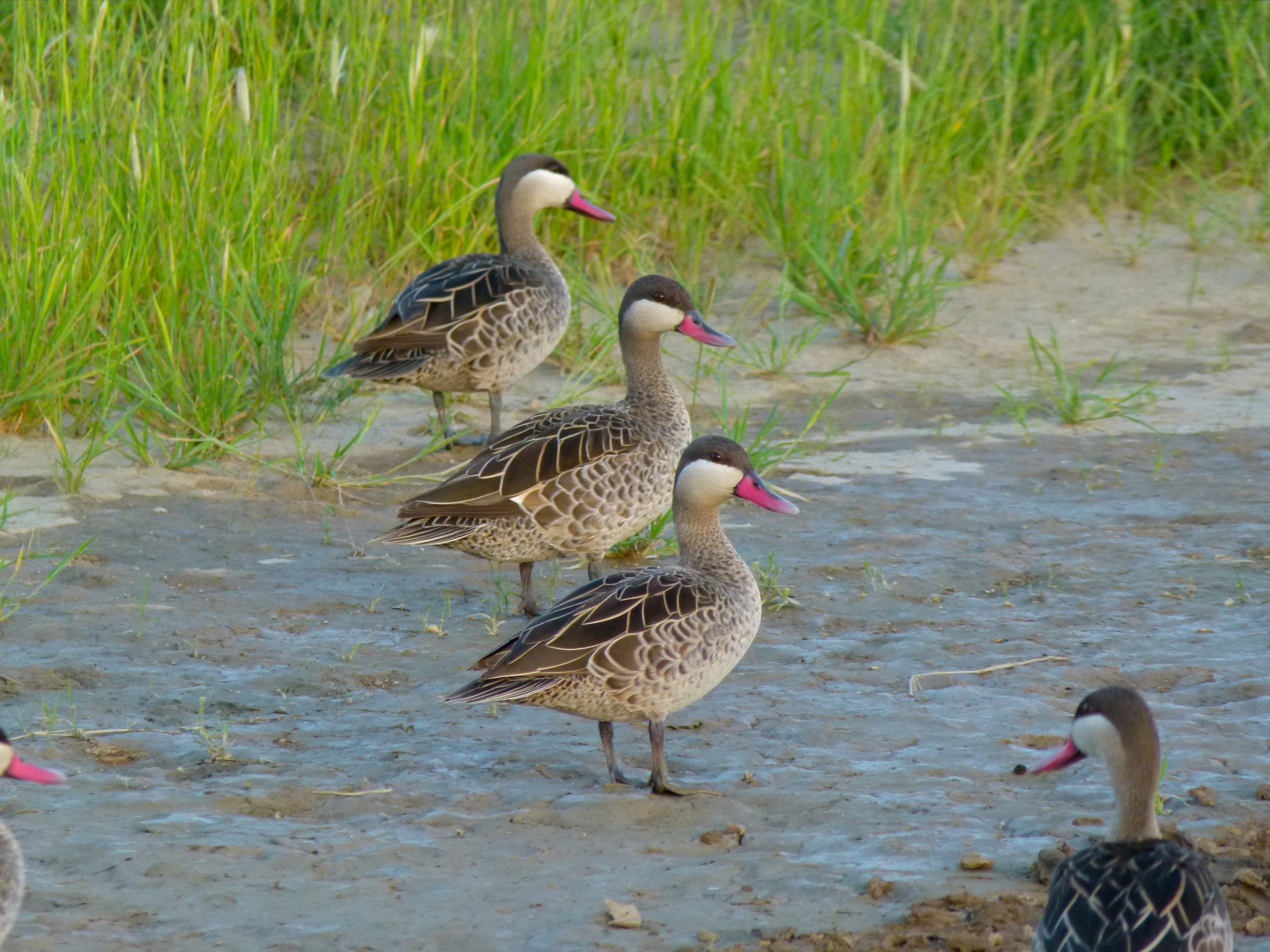 Nossob River Bed, Kgalagadi Transfrontier Park, SOUTH AFRICA